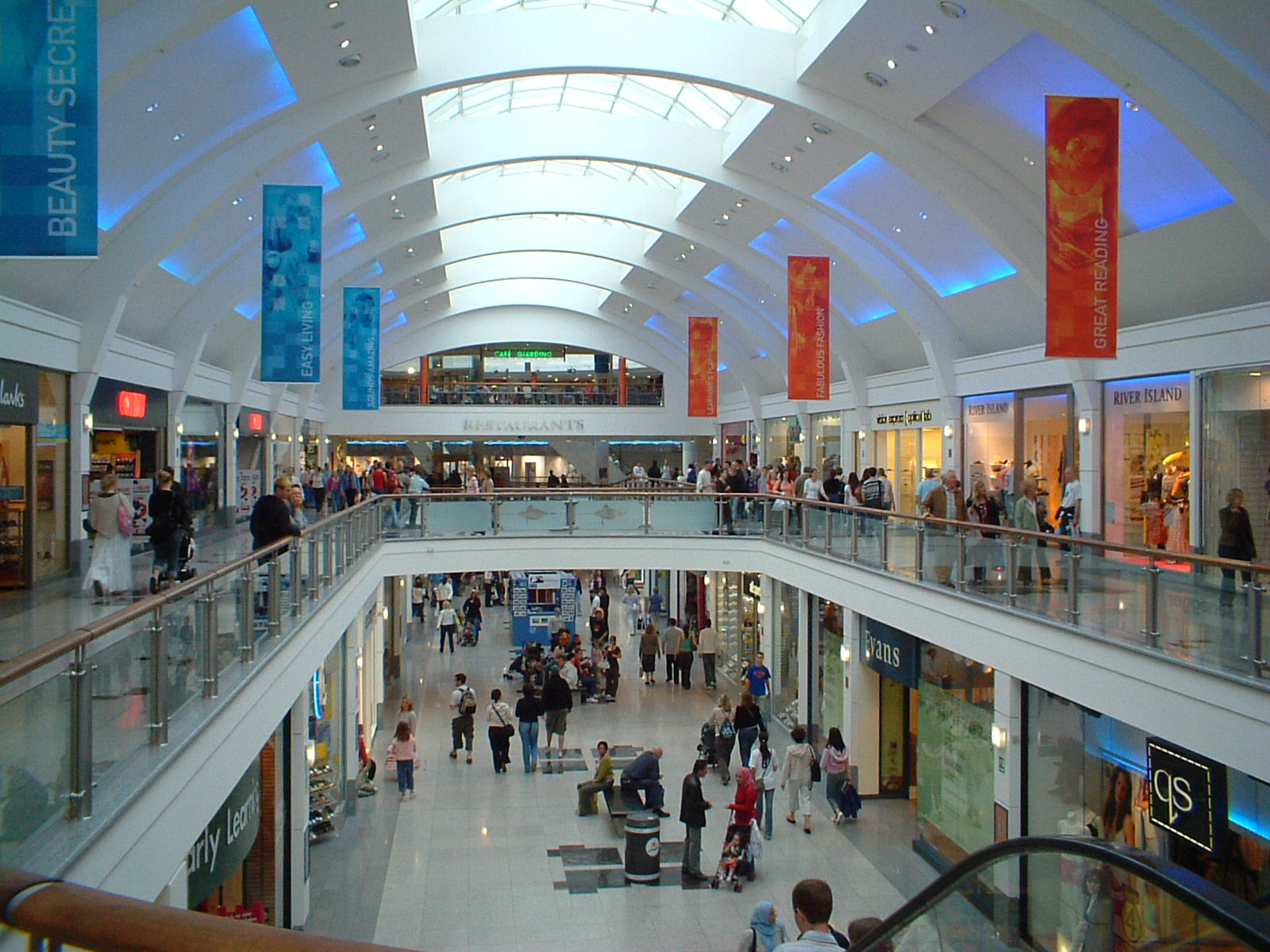 Churchill Square Shopping Centre, Brighton. Taken by James Armitage, Friday 3rd June 2005.